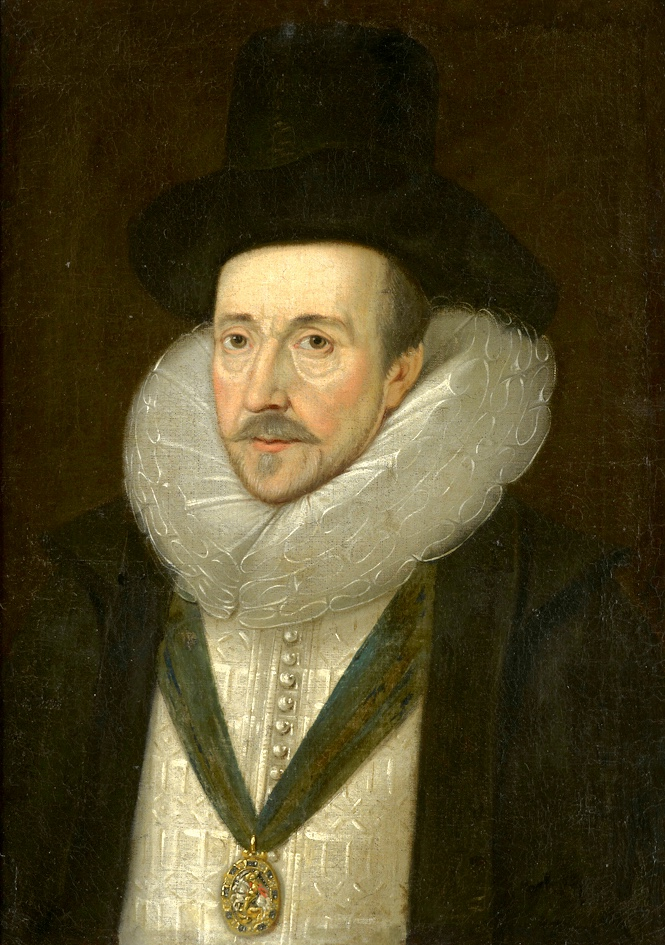 Portrait of Henry Howard, 1st Earl of Northampton, wearing the "George" badge of the Order of the Garter.